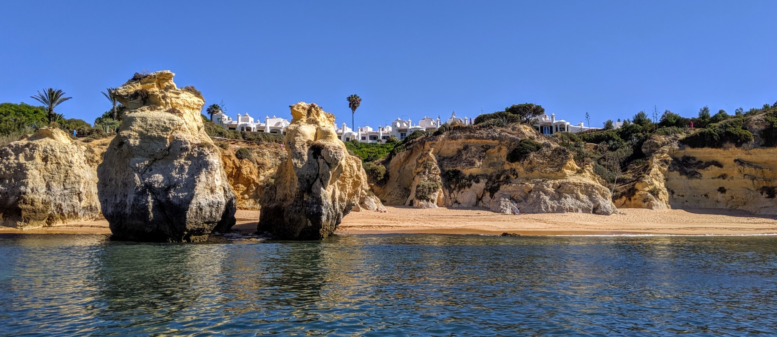 Praia dos Beijinhos, Porches, Lagoa, Portugal, panoramic view from boat